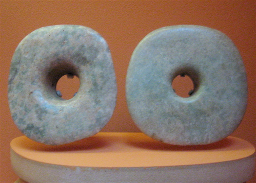 Guatemala, Maya Earspool, A.D. 550-850 Jewelry/personal adornment, ear disk, Jadeite, Width: 1 3/16 in. (3.00 cm) The Phil Berg Collection (M.71.73.325 & M.71.73.326) Wikipedia Loves Art at the Los Angeles County Museum of Art This photo of item # M.71.73.325 at the Los Angeles County Museum of Art was contributed under the team name "artifacts" as part of the Wikipedia Loves Art project in February 2009. Los Angeles County Museum of Art The original photograph on Flickr was taken by Beesnest McClain—please add a comment to the original Flickr page whenever a use has been made on Wikipedia or another project. Project galleries on Flickr: this institution, this team